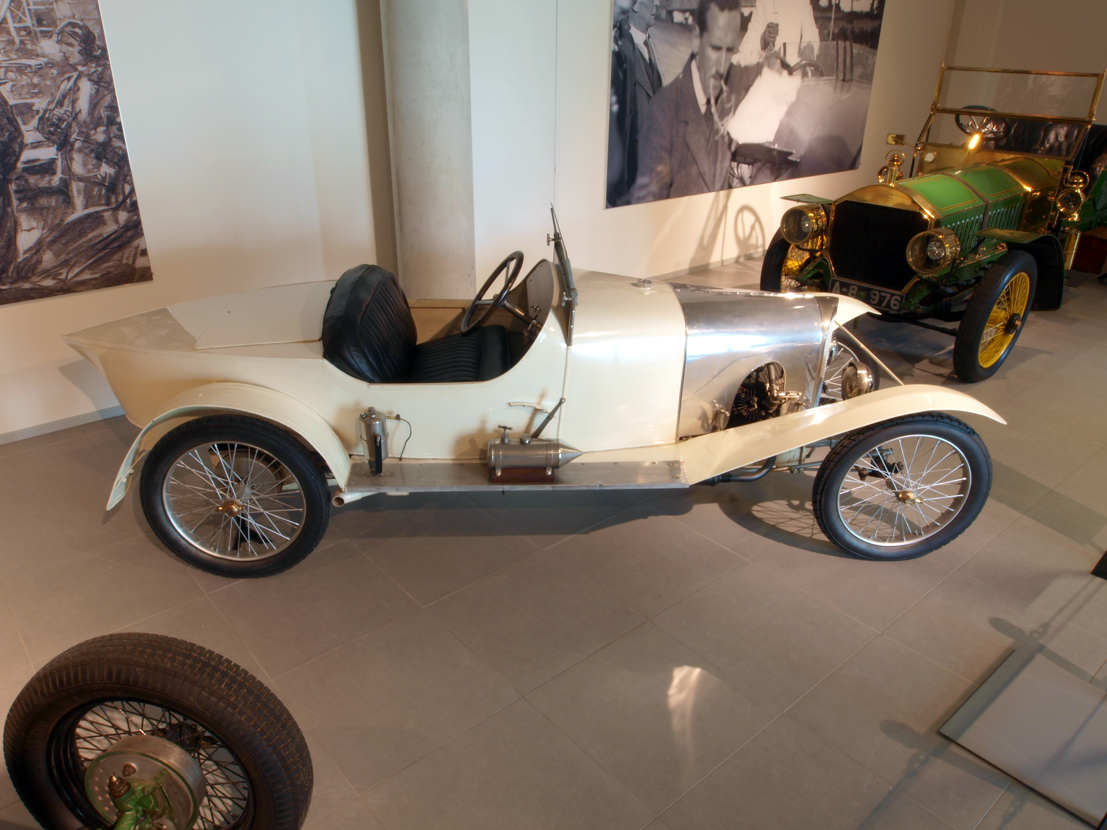 Photographed at the Louwman museum / Louwman Collection, The Netherlands.